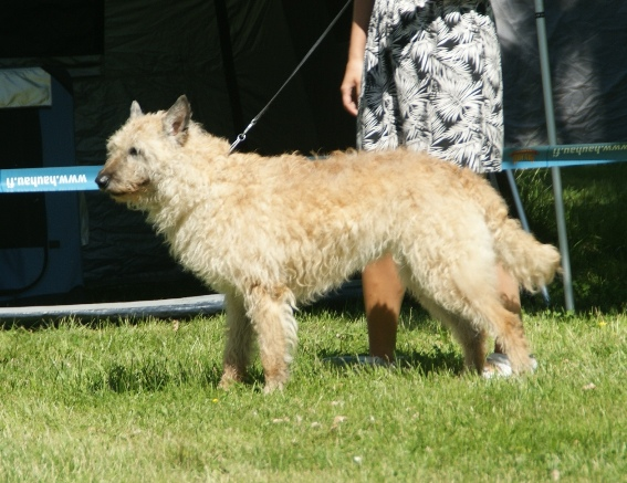 Belgian Shepherd, variation Laekenois.